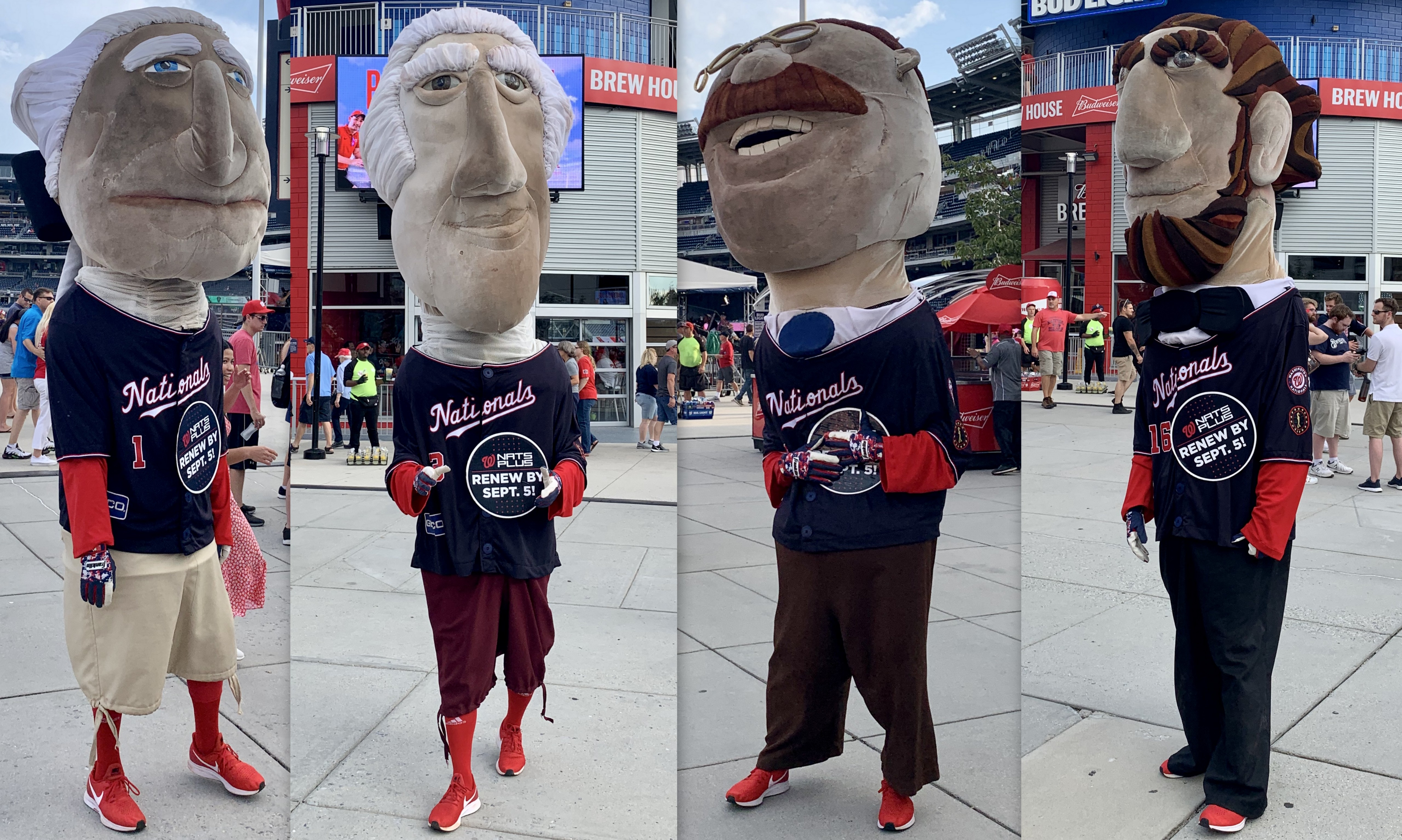 The four racing US presidents posing before a game at Nationals Park in Washington, D.C.